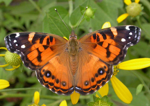 American Painted Lady, Vanessa virginiensis. Location: Durham, North Carolina, United States